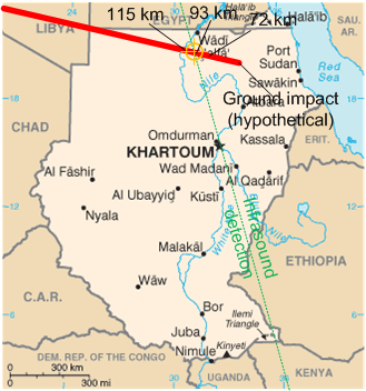 Ground track and probable explosion point in midair of the asteroid 2008 TC3 which entered earth's atmosphere and exploded over Sudan on 2008-10-06. Original map CIA Factbook. Graphic overlay George William Herbert 2008-10-07. GFDL and CC-BY-3.0 dual licensed. Ground track from Very near NEO Meteoroid (Mike Kretlow); infrasound track from [1] (Dr Peter Brown).